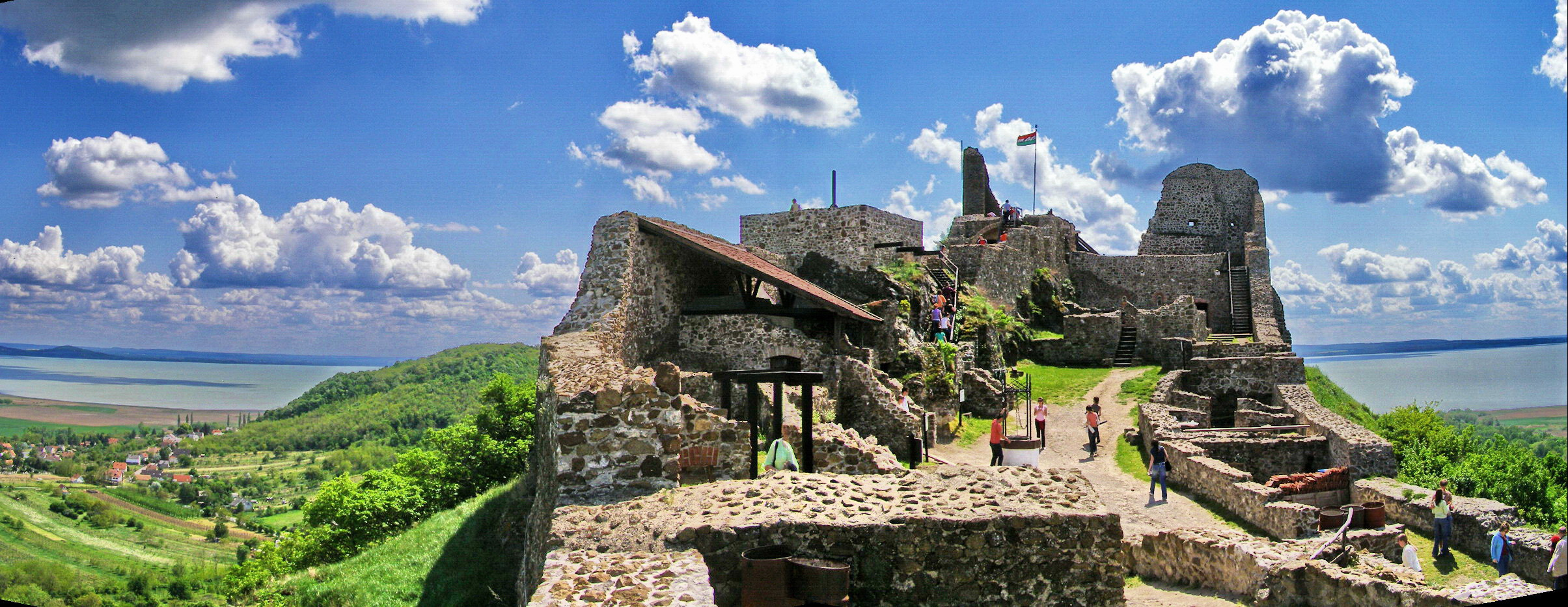 Szigliget, Western Hungary. Ruins of the medieval castle, overlooking the Lake Balaton.